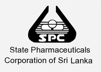 SPMC means - State Pharmaceuticals Manufacturing Corporation of Sri Lanka